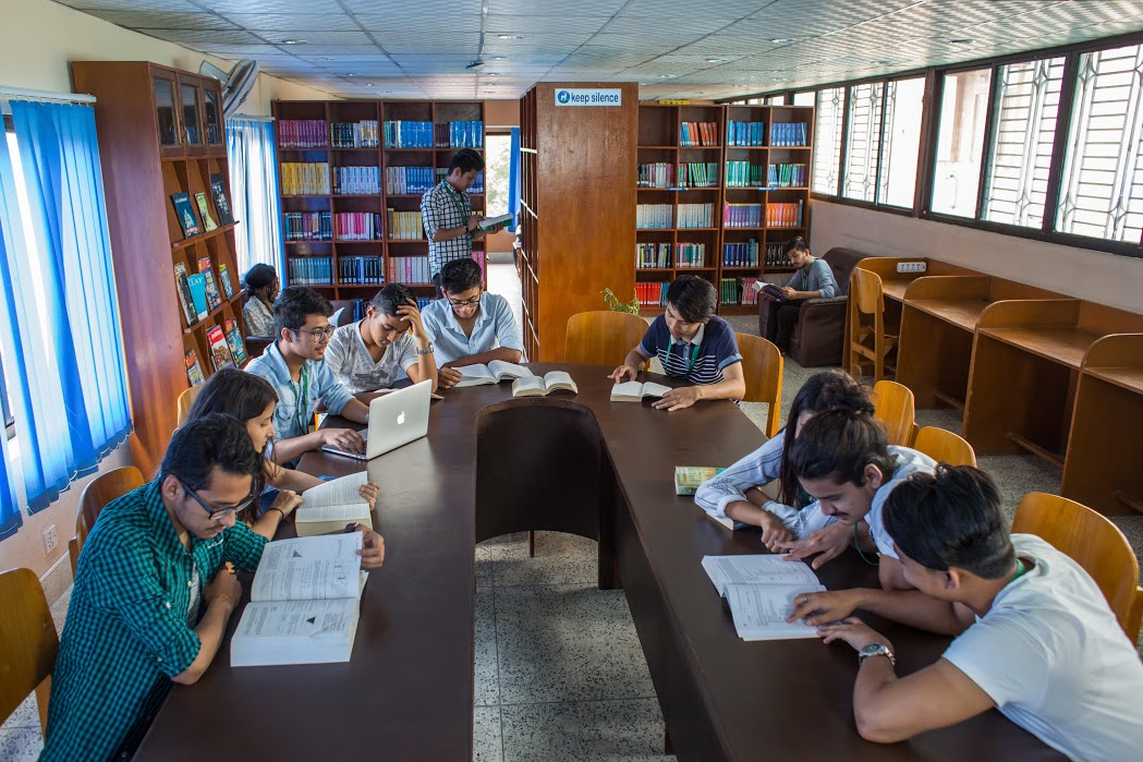 DWIT Students in the open college courtyard